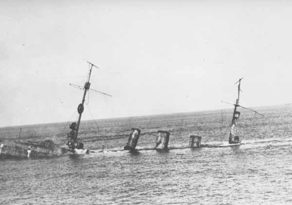 SMS Frankfurt sinking.